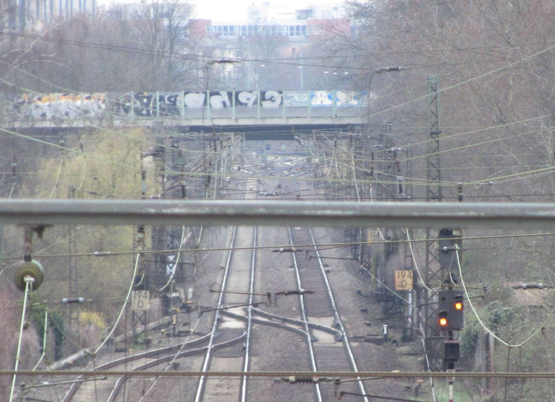 Main-Weser-Bahn (line 3900) at Frankfurt-Ginnheim, begin of siding at km 194.0